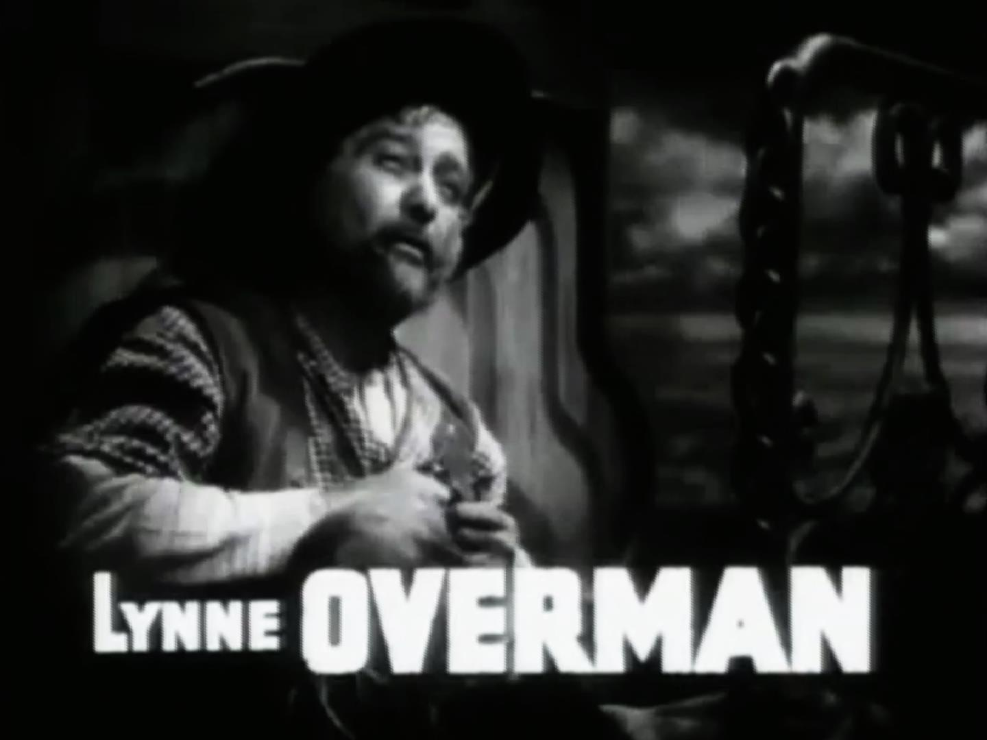 Screenshot from the trailer for the film Union Pacific (1939).